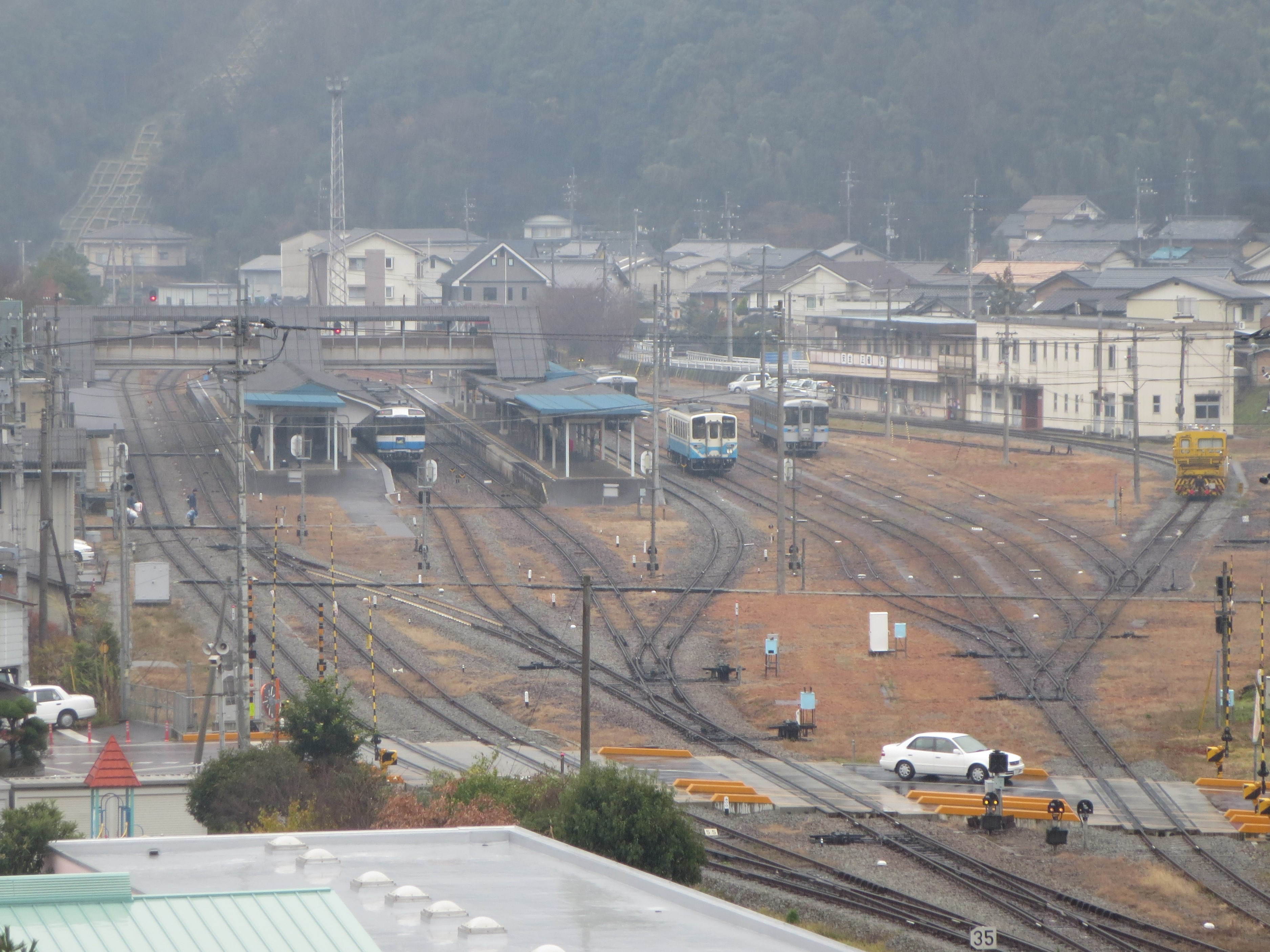 Awa-Ikeda Station as from the west